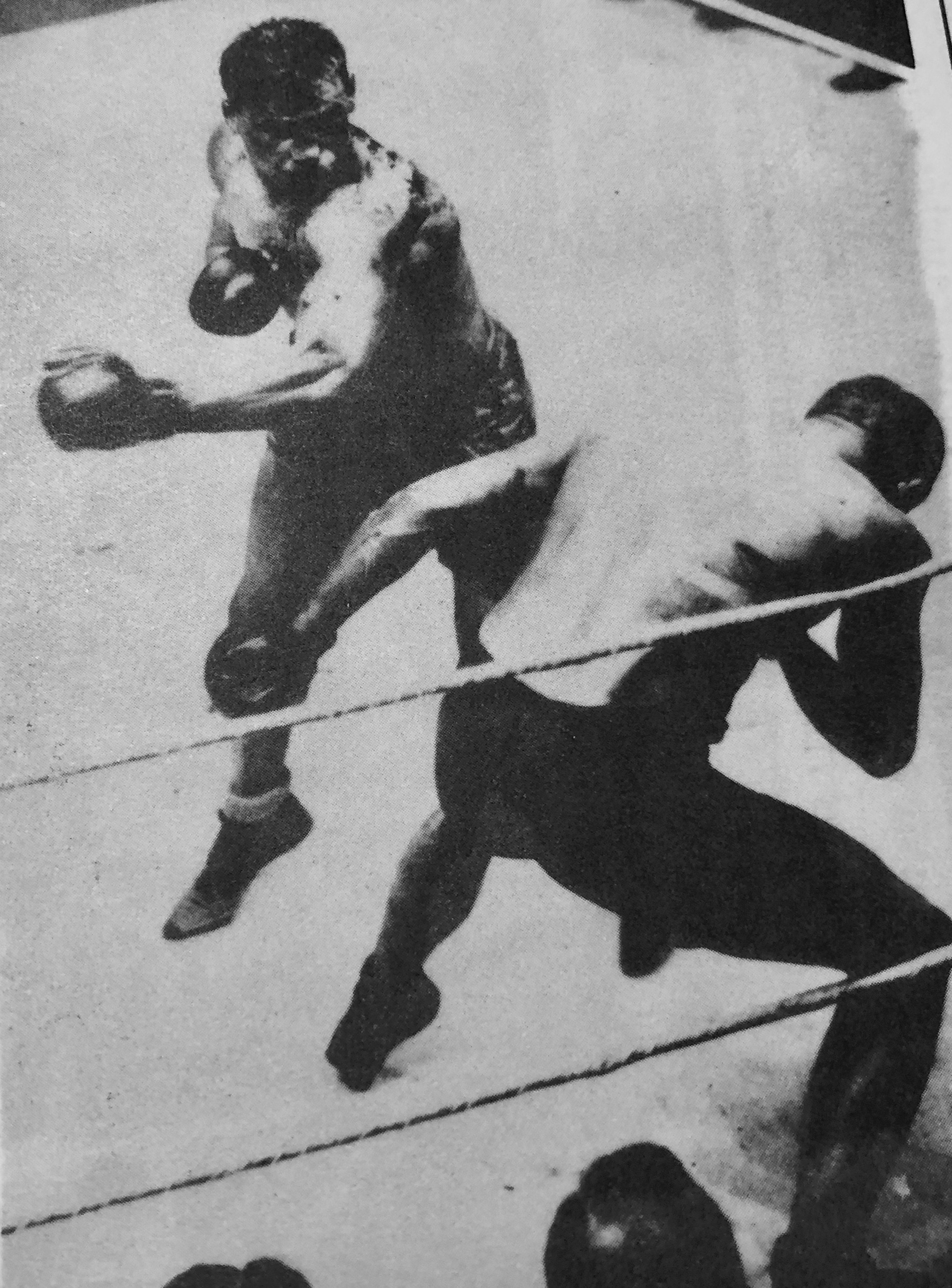 O'Keeffe vs Sullivan, blood everywhere